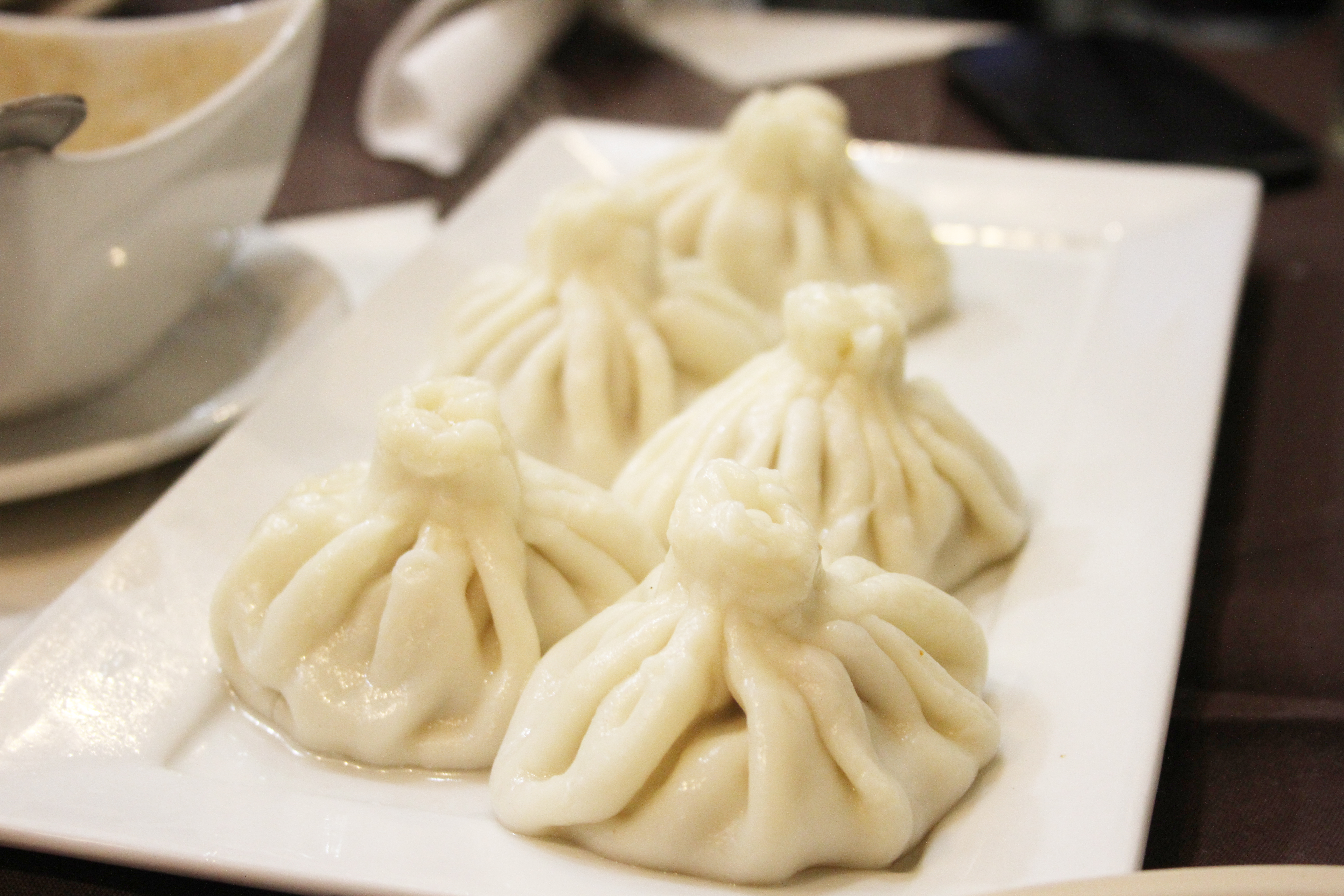 Aragvi 832 Sheppard Ave W, Toronto